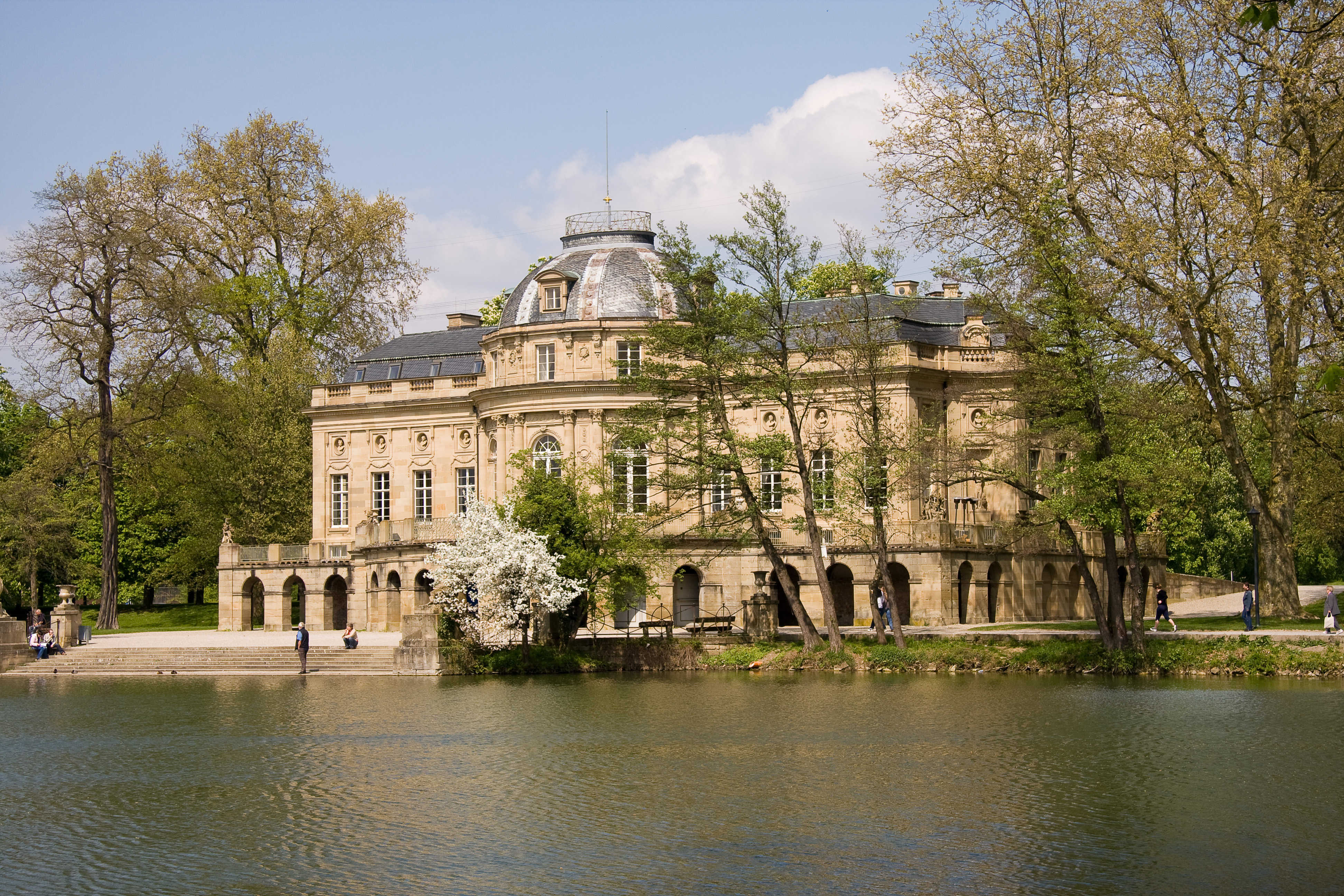 Palace Monrepos in Ludwigsburg, Germany. Photo taken from south.